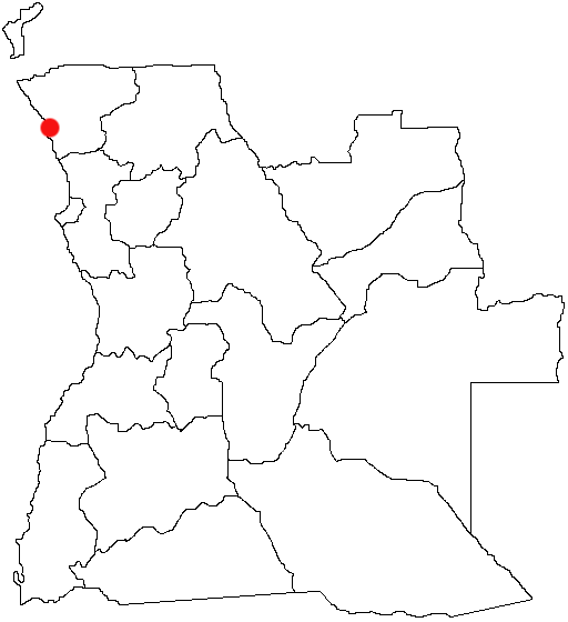 N'zeto, Angola Location Map; created with the GIMP. Made by User:Acntx.